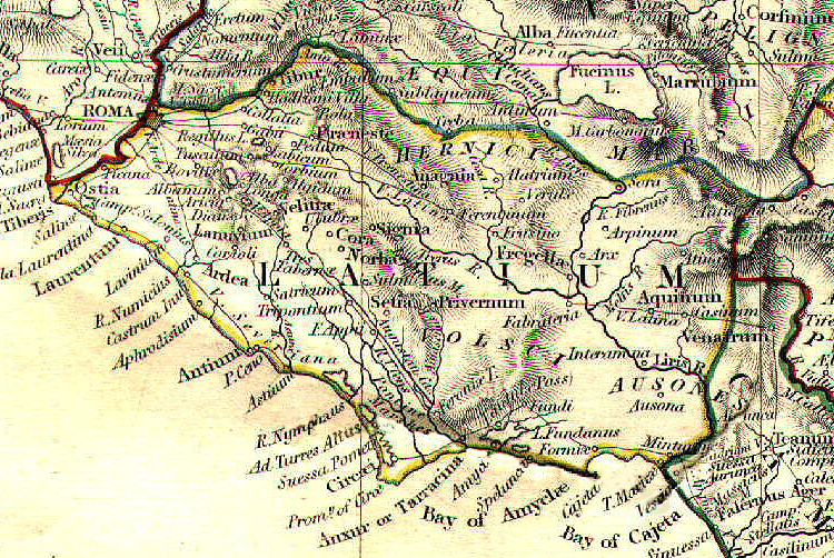 Reference map for Latium